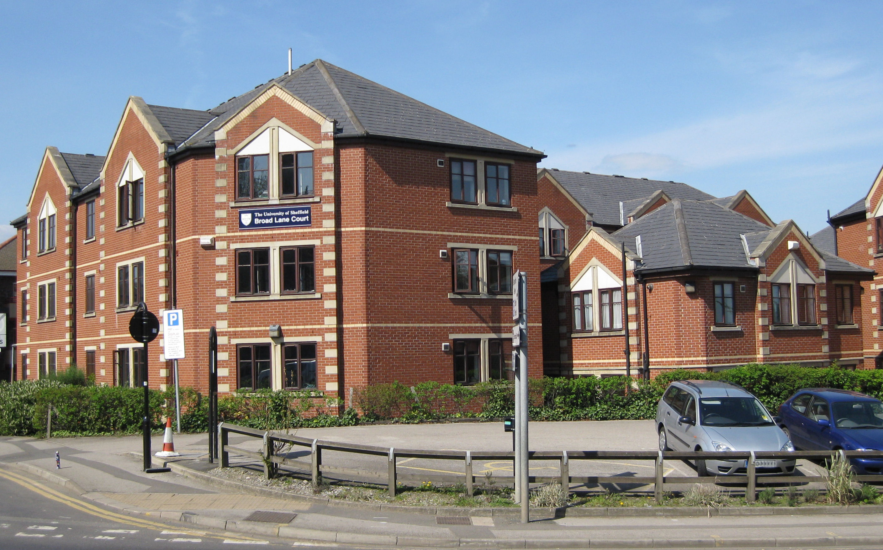 Broad Lane Court, Broad Lane, University of Sheffield. Student accommodation.